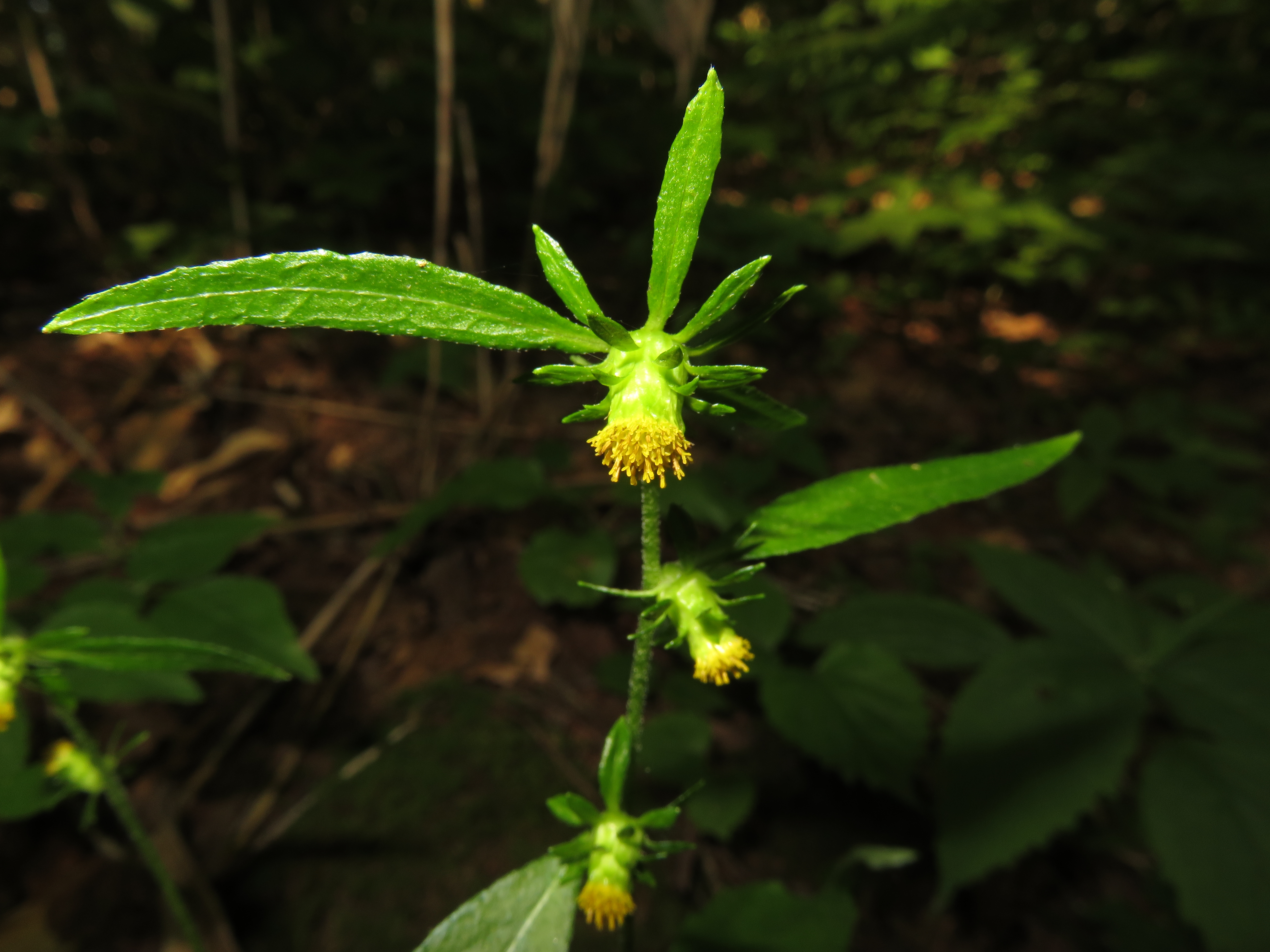 Carpesium triste, Takizawa city, Iwate pref., Japan